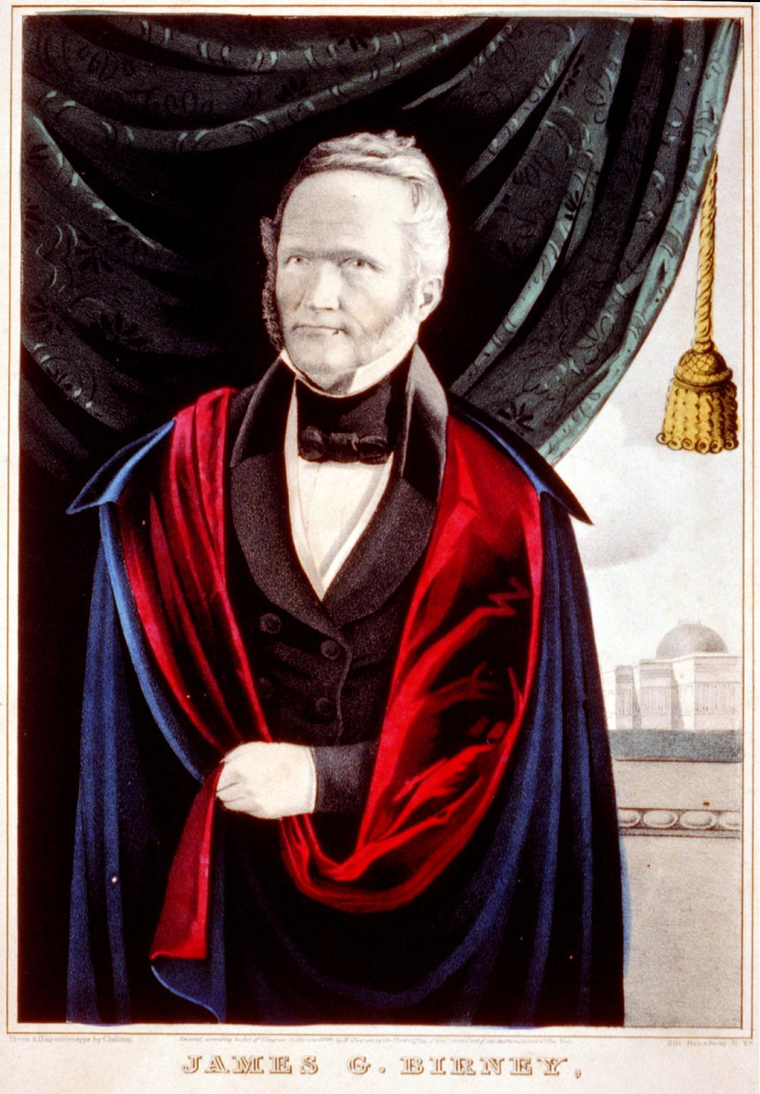 James G. Birney, based on a daguerreotype by Chilton.